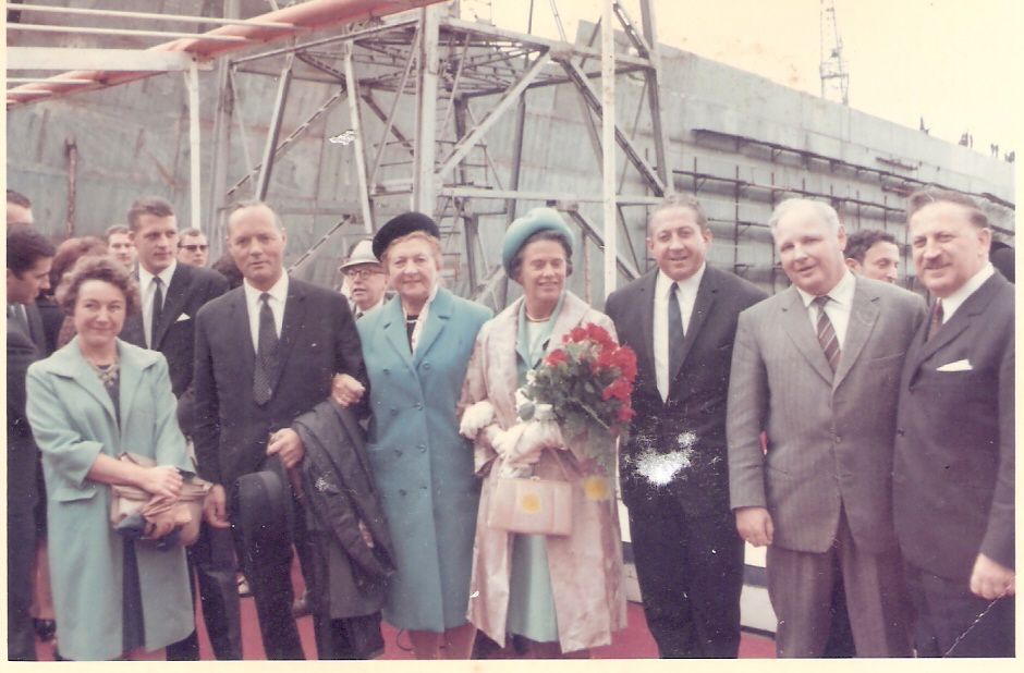 Honor guest at ship launch.